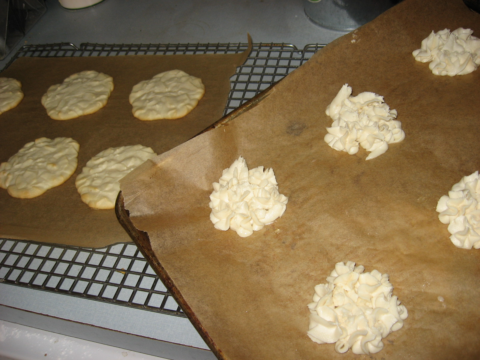 A cookie-like pastry, common in England and abroad since the middle ages, which tend to have a relatively simple recipe of nuts, flour, eggs, and sugar, with vanilla, anise, or caraway seed used for flavoring. Originally, jumbles were twisted into various pretzel-like shapes, and boiled. By the late 18th century, jumbles became rolled cookies that were baked, producing a cookie very similar to a modern sugar cookie, although without the baking powder or other leaveners used in modern recipes